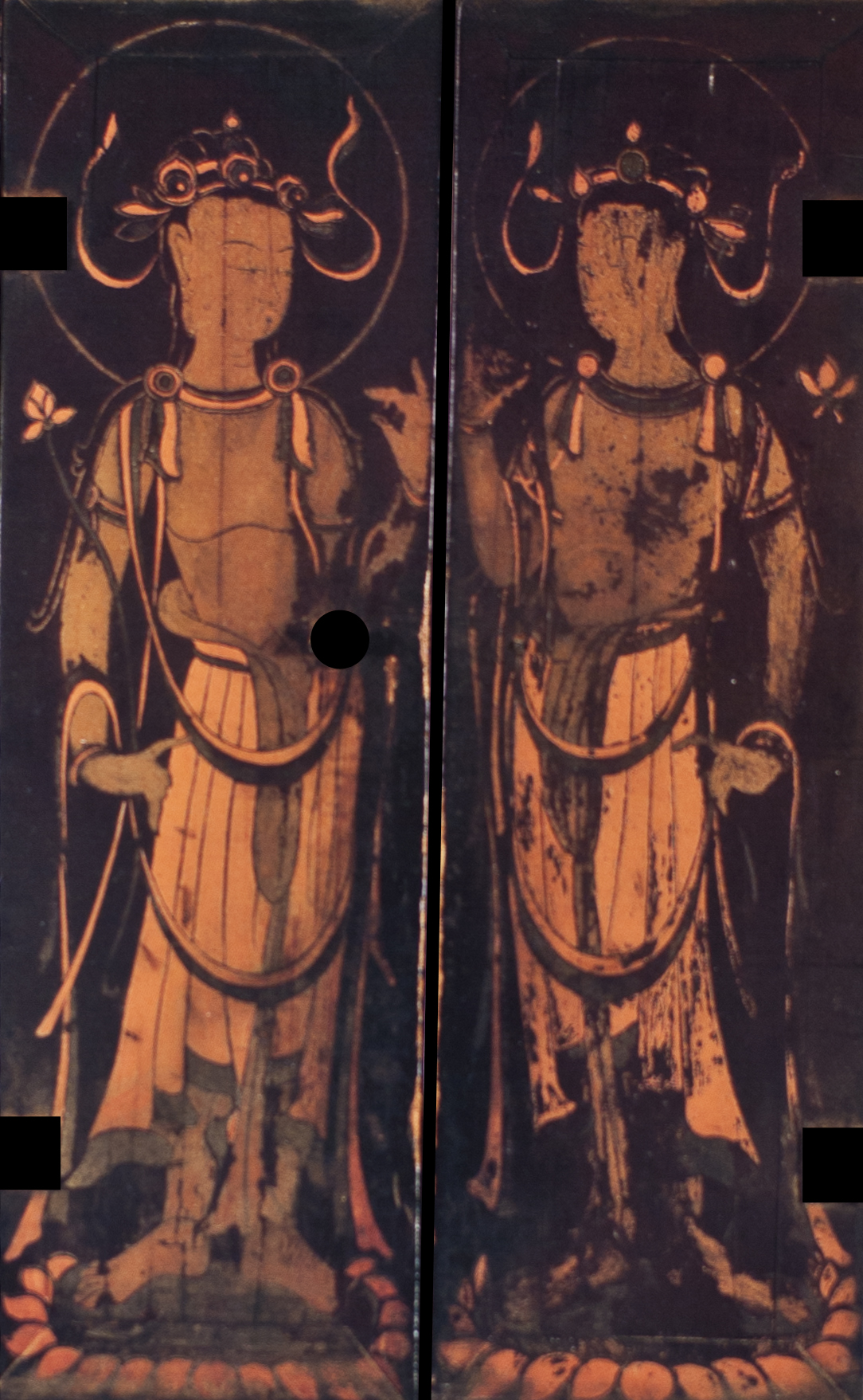 Tamamushi Shrine, Horyuji, Japan